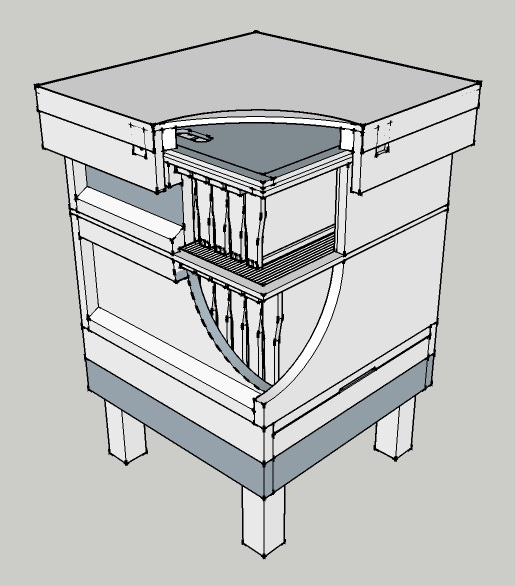 CGI image of a BS National (Modified) Beehive, cutaway to show internal structures